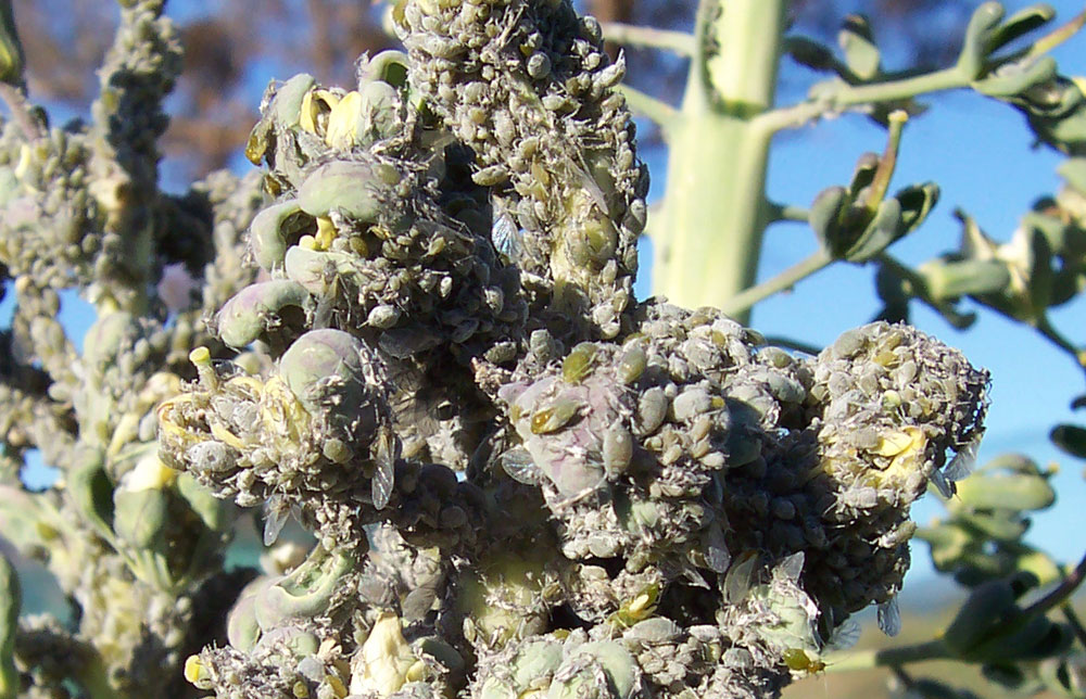 Aphids on broccoli